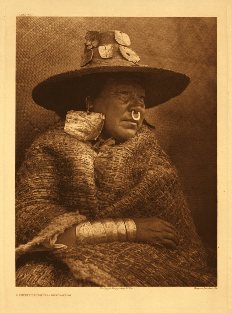 Chief's daughter - Nakoaktok, English name Francine, from Blunden Harbour or Ba'as in Kwak'wala, of the Nakwaxda'xw tribe. A chief's daughter from the Nakoaktok nation. Shown wearing copper headpieces, abalone earrings, nose ring, and inscribed metal bracelets.